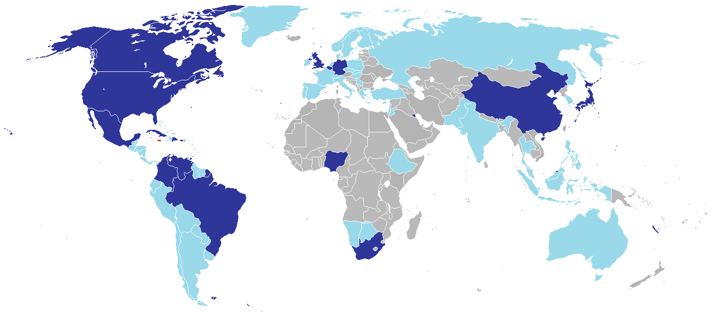 Diplomatic missions of Jamaica